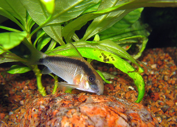 Skunk cory (Corydoras arcuatus)